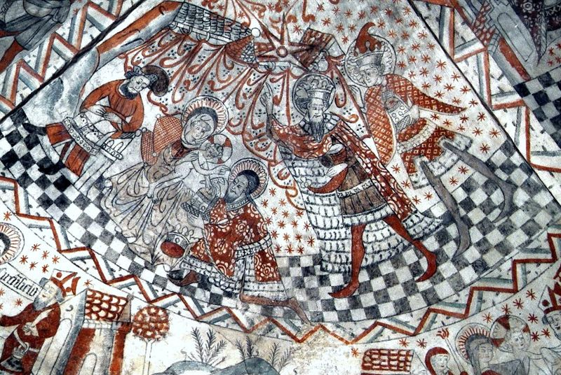 Frescoes by The Isefjord Master from apr. 1460-1480 in Tuse Kirke (church)